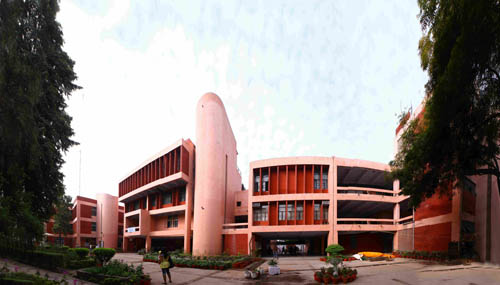 Panorama of Shivaji College